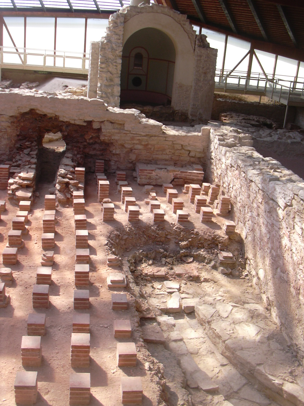 Weißenburg, Roman Bath, big tepidarium and small frigidarium, Bavaria/Germany